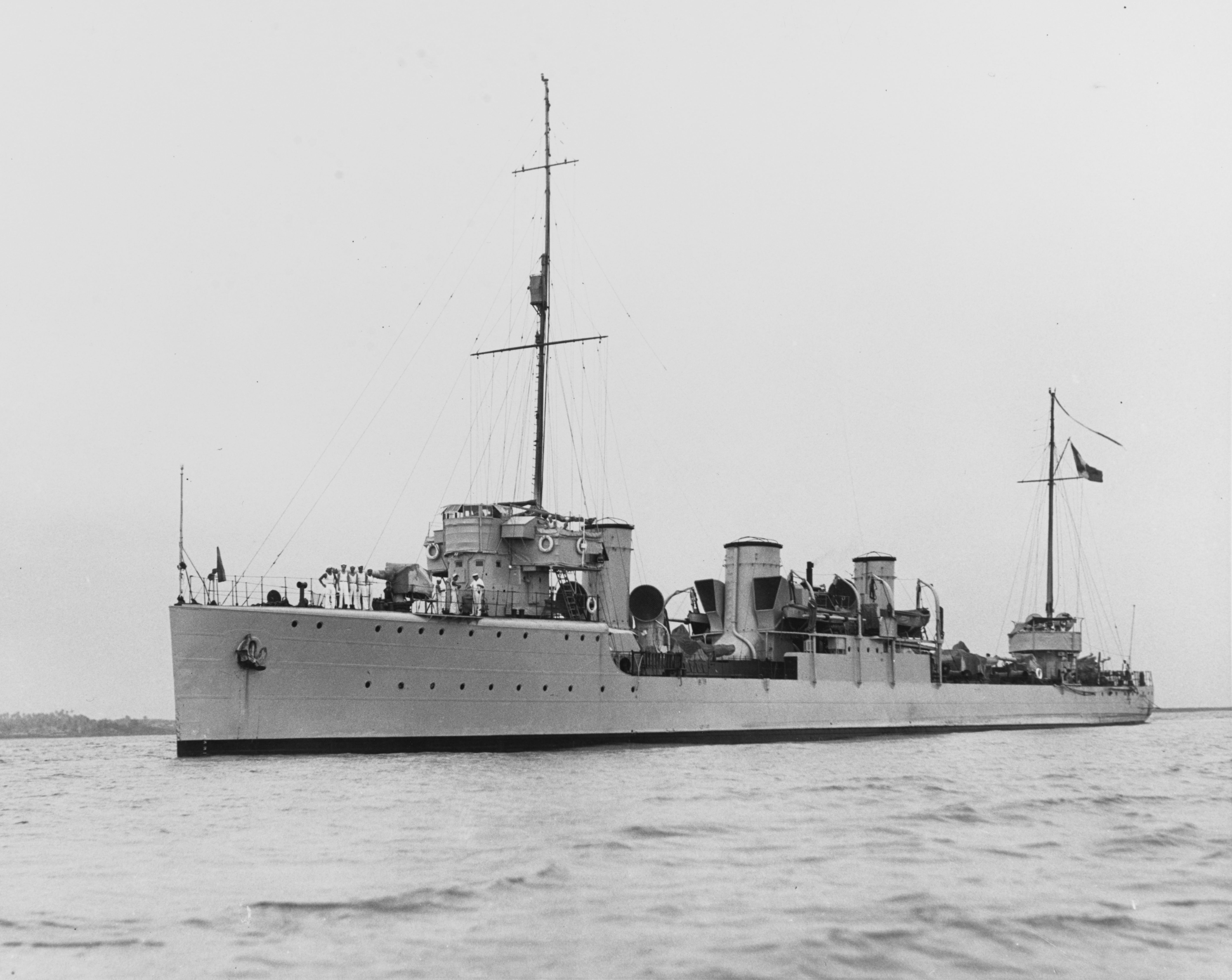 Title: ALMIRANTE VILLAR Peruvian DD, 1915 Caption: In Colon harbor, 26 June 1934. She was formerly the Estonian DD VAMBOLA and Russian DD SPARTAK, ex-MIKULA MAKLEI. Description: Catalog #: 80-G-455954